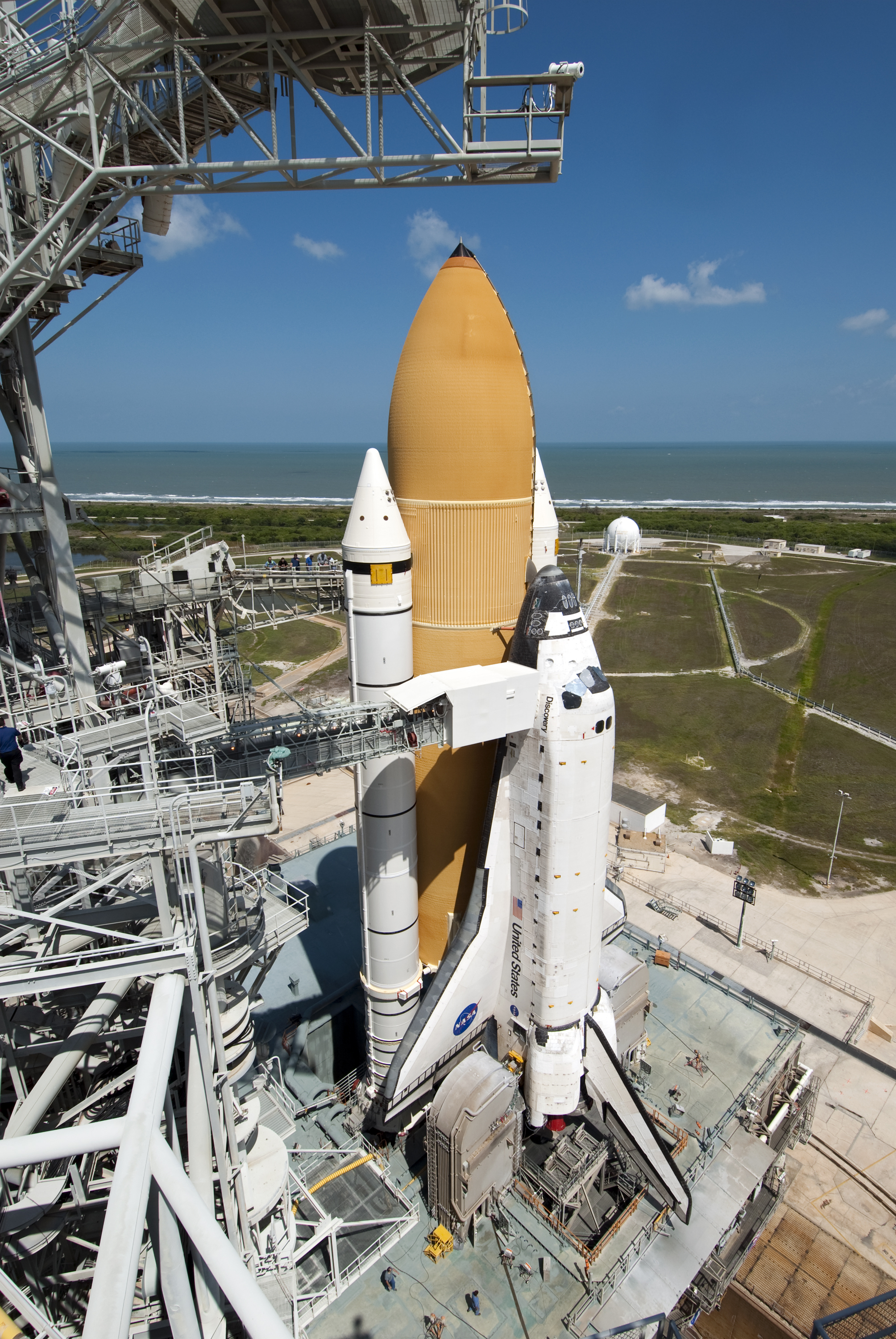 CAPE CANAVERAL, Fla. – At NASA's Kennedy Space Center in Florida, space shuttle Discovery is visible on Launch Pad 39A before the rotating service structure, which protects it from the elements and provides access to the shuttle, is moved into place. It took the spacecraft about six hours to make the journey, known as "rollout," from the Vehicle Assembly Building to the pad. Rollout sets the stage for Discovery's STS-133 crew to practice countdown and launch procedures during the Terminal Countdown Demonstration Test in mid-October. Targeted to liftoff Nov. 1, Discovery will take the Permanent Multipurpose Module (PMM) packed with supplies and critical spare parts, as well as Robonaut 2 (R2) to the International Space Station.